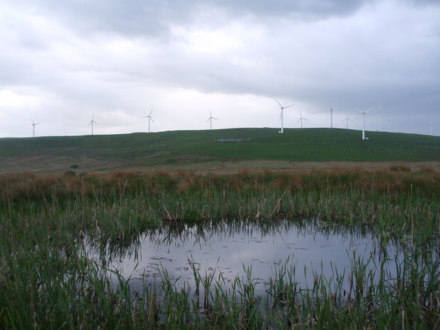 Mynydd Maendy A small pond with the wind farm in the background